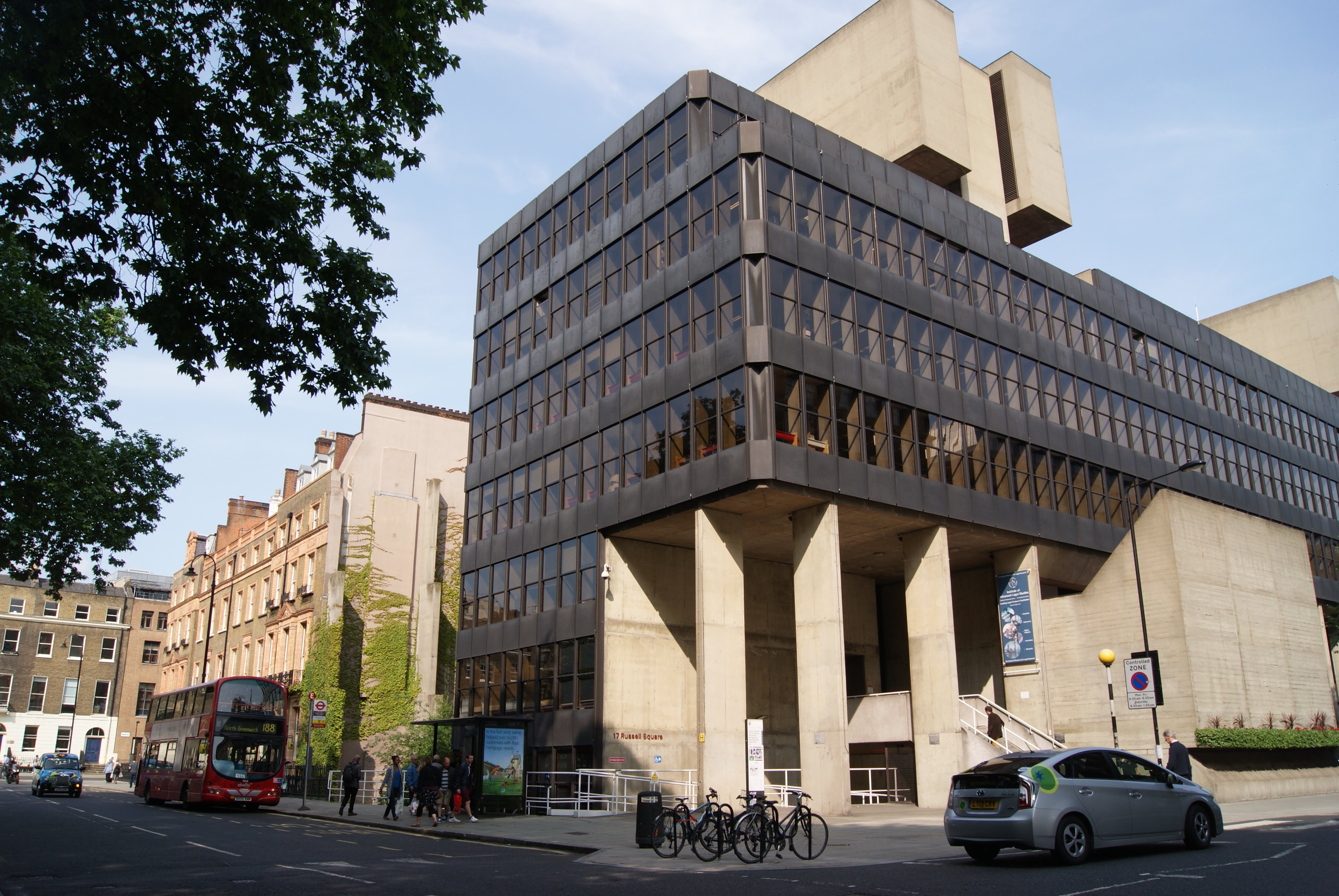 The Institute of Advanced Legal Studies of the University of London, which is located in Charles Clore House at 17 Russell Square, London, UK.